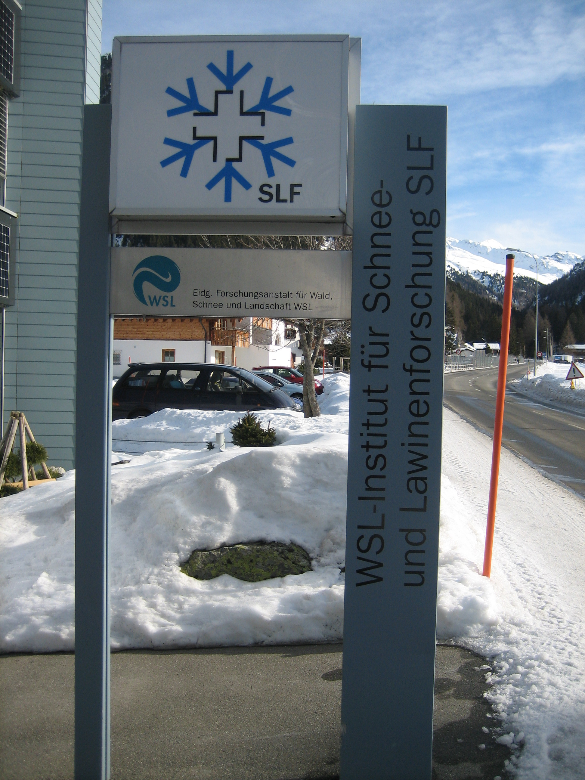 Logo of WSL Institute for Snow and Avalanche Research SLF, Davos Dorf